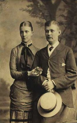 Gustav Ludvig Wad (1854-1929), Danish archivist and historian